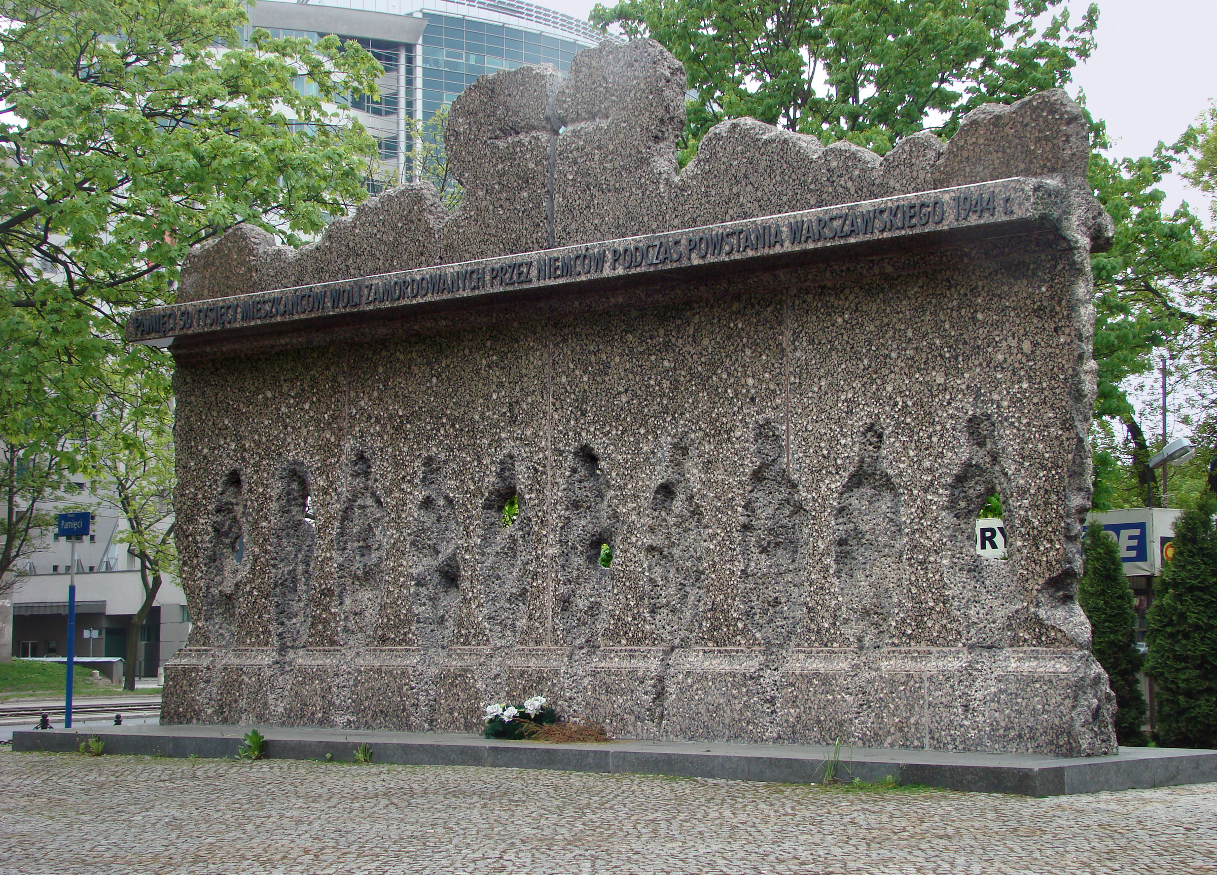 Wola massacre victims memorial